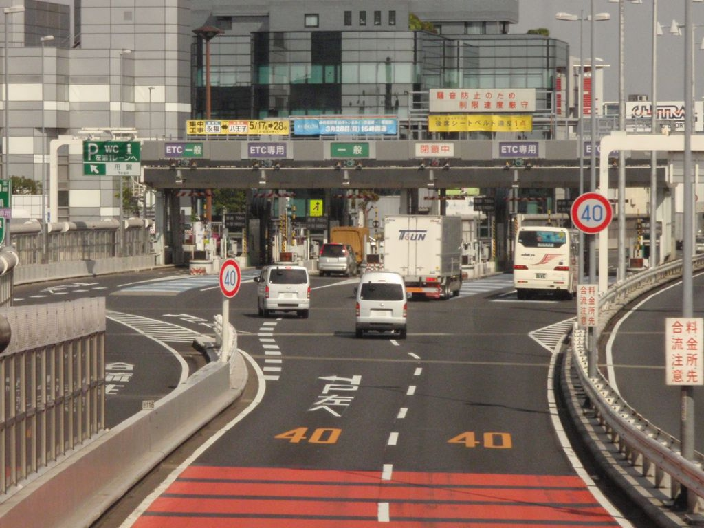 Metropolitan Expressway 3 Youga toll gate